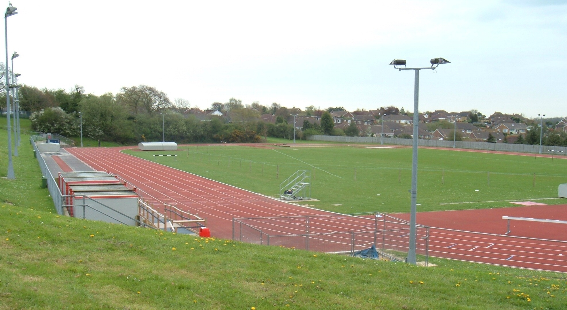 William Parker community athletics stadium, Parkstone Road, Hastings, UK. Taken by contributor, spring 2006.